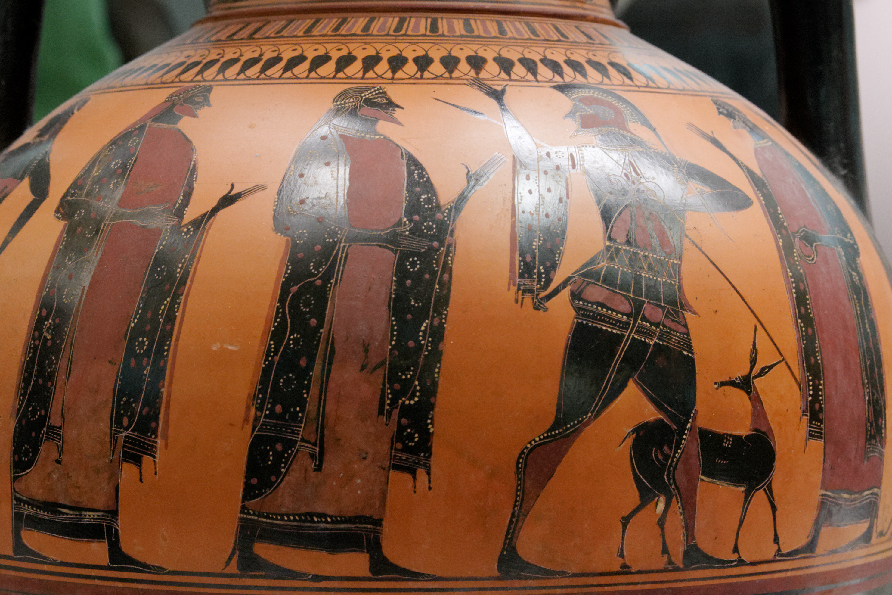 Warrior leaving home. Side B of an Attic black-figured amphora.